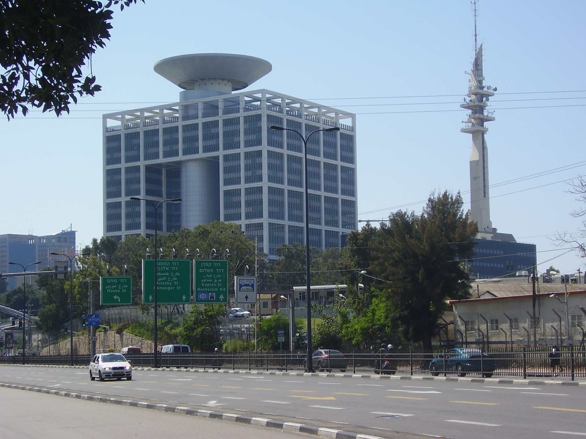 general staff building in tel aviv